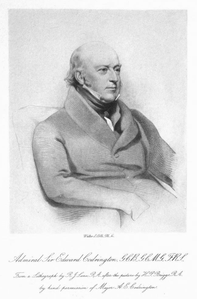 Lithograph of Sir Edward Codrington, Royal Navy.